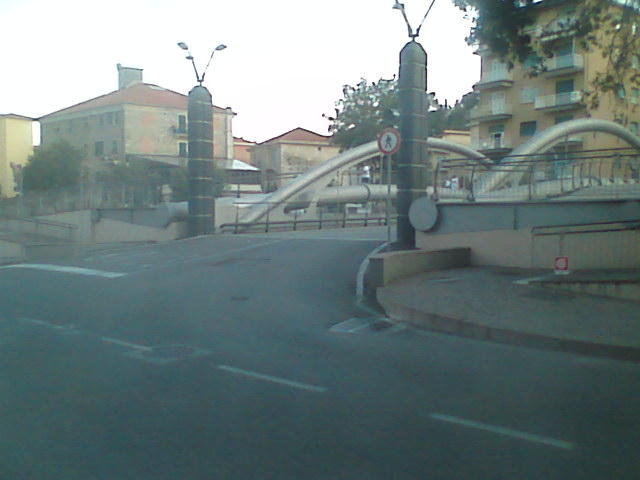 final pia bridge in finale ligure (ITALY)